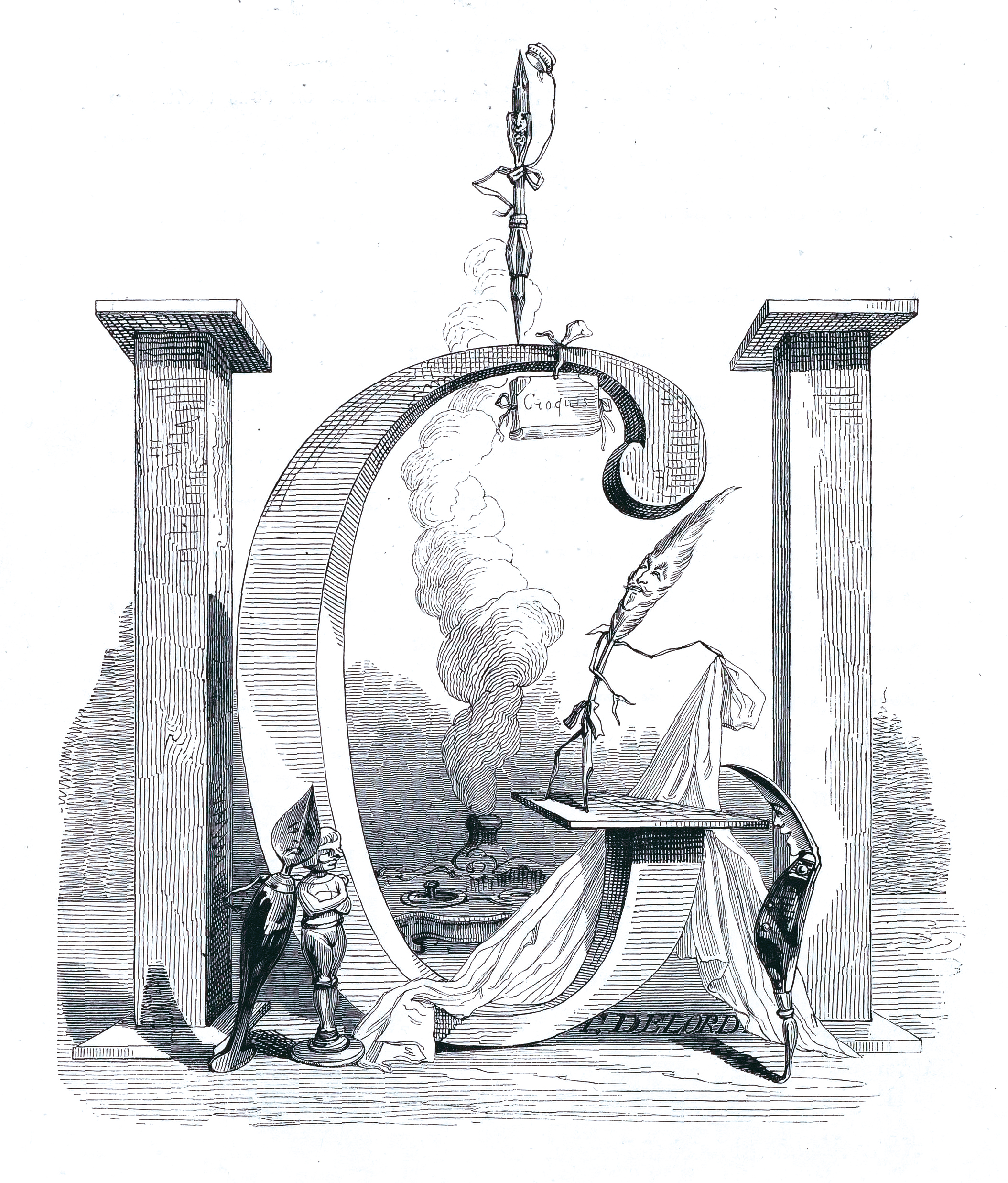 Illustration from "Un Autre Monde" by the french artist Grandville, epilogue.